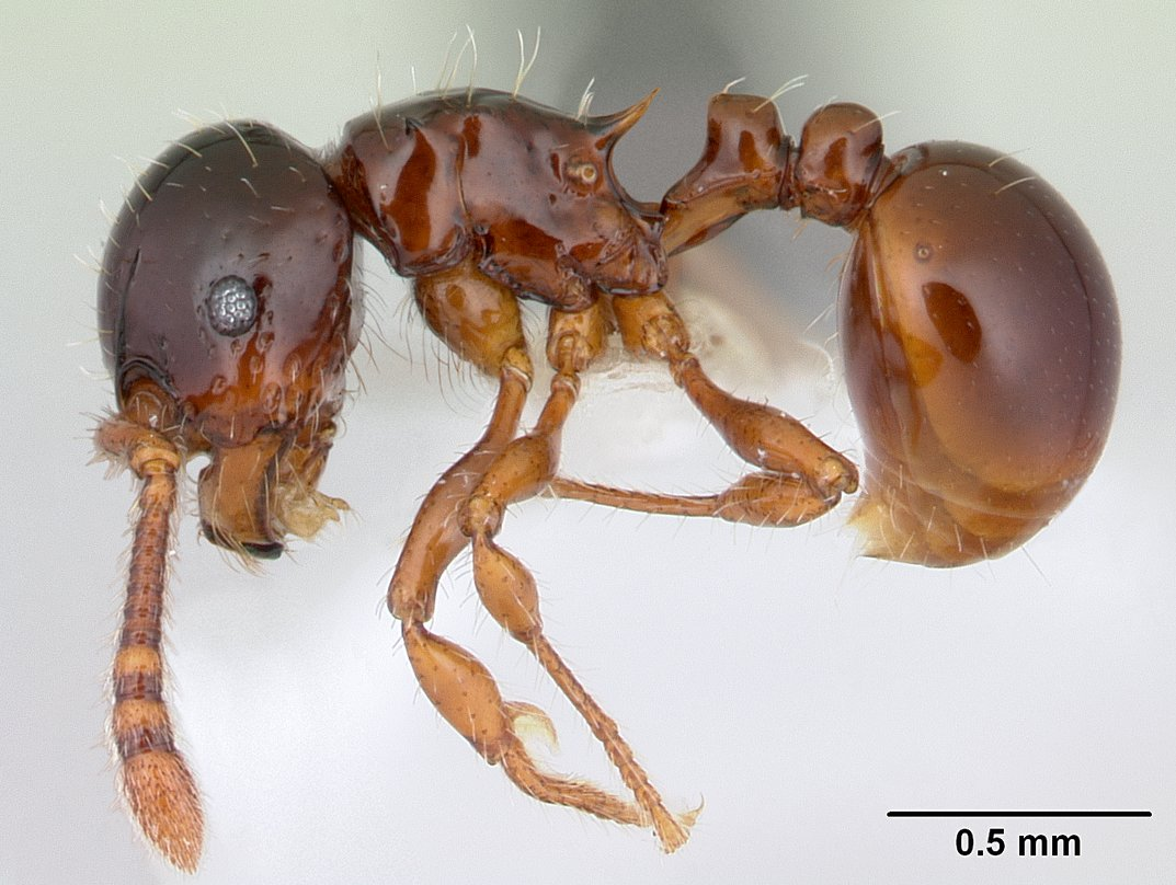 Profile view of ant Pristomyrmex minusculus specimen casent0178458.